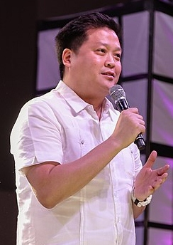 Valenzuela City Mayor Gatchalian speaks on its constituents.